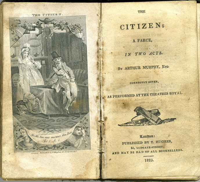 Title page and frontispiece of 1823 printing of Arthur Murphy's play The Citizen (first produced Drury Lane 1761), showing scene from Act 2 with Philpot, young Philpot and Corinna.